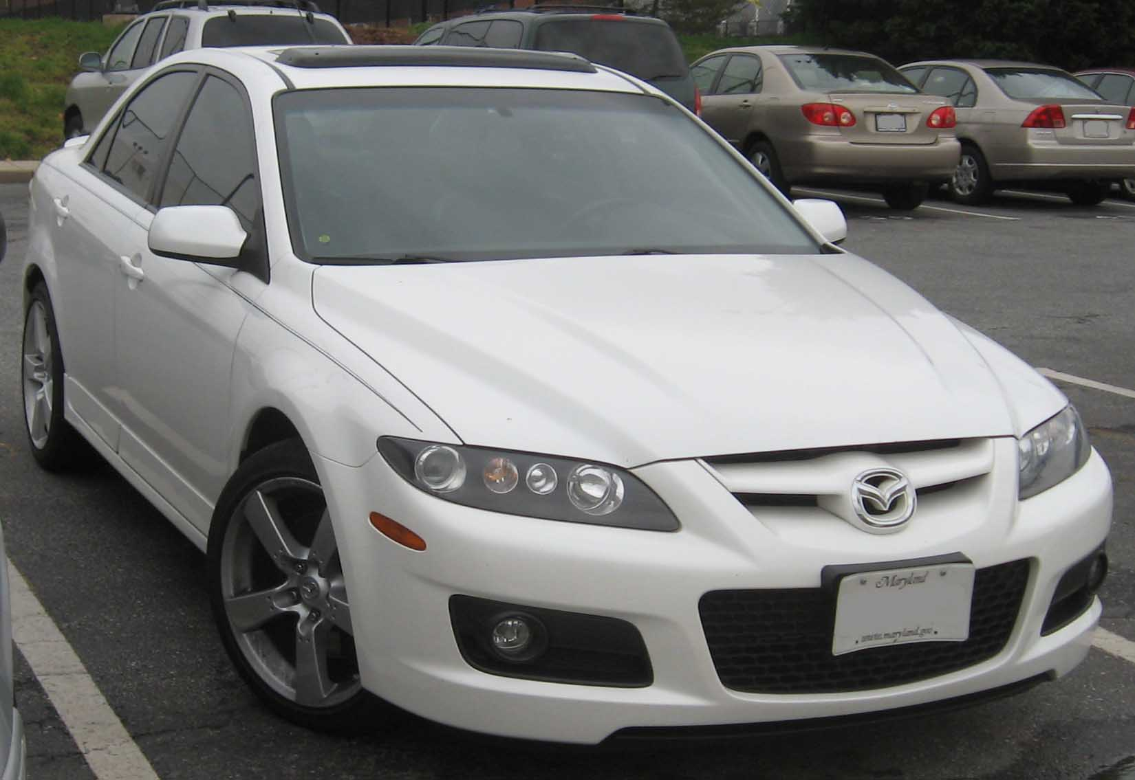 MazdaSpeed 6 photographed in College Park, Maryland, USA.